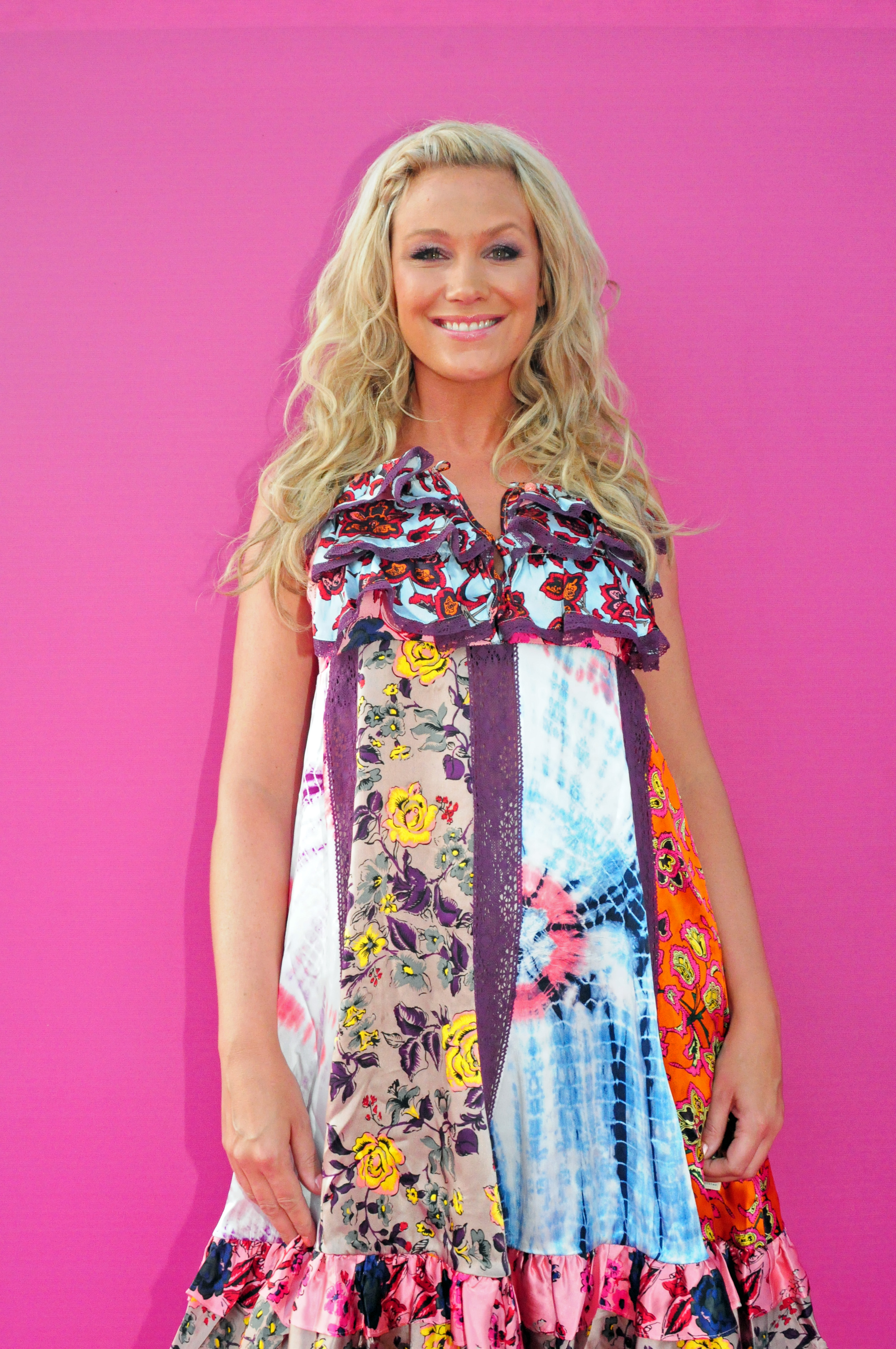 Jessica Andersson